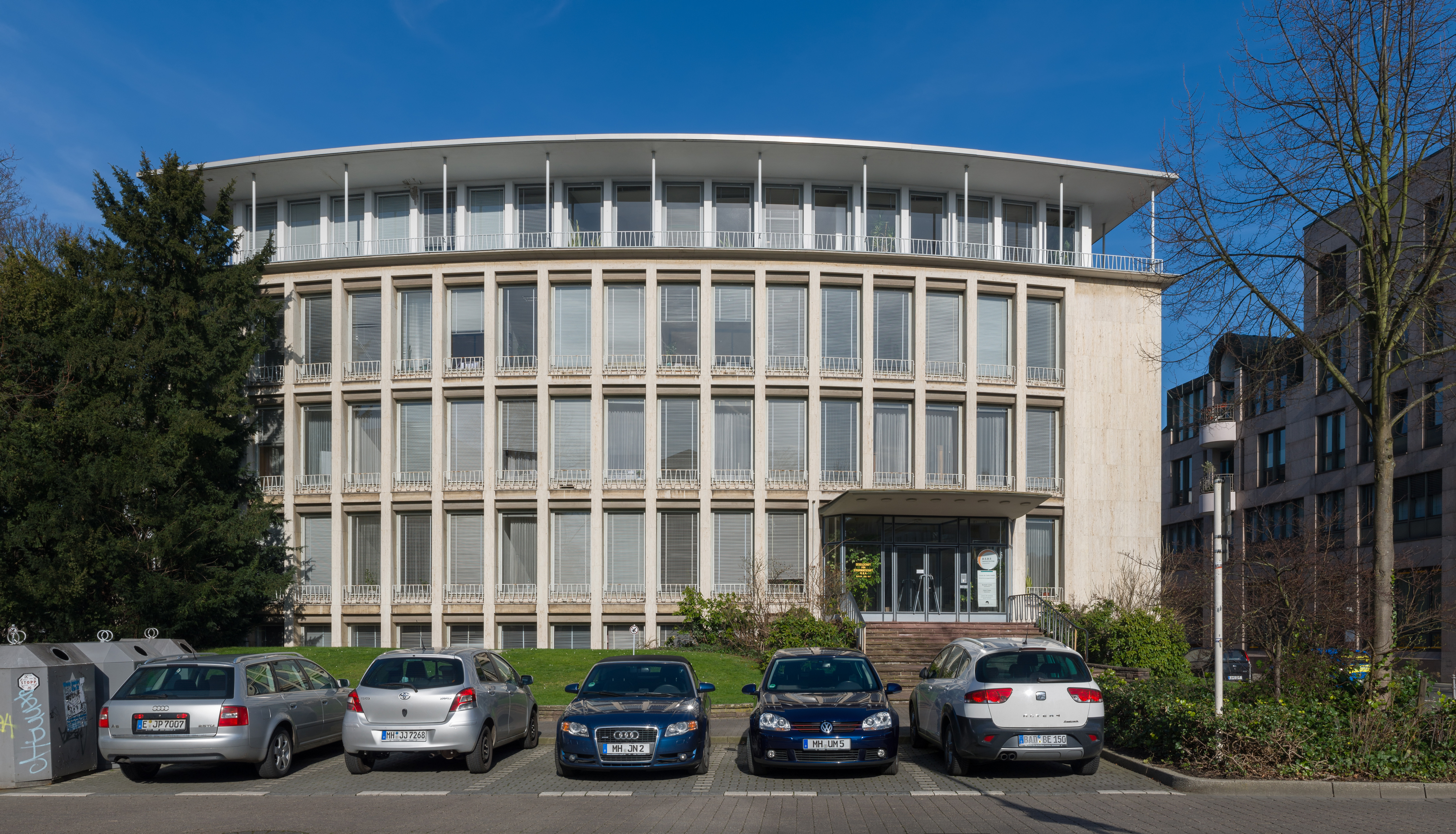 House Delle 50-52 in Mülheim. Office building from the 1950th.